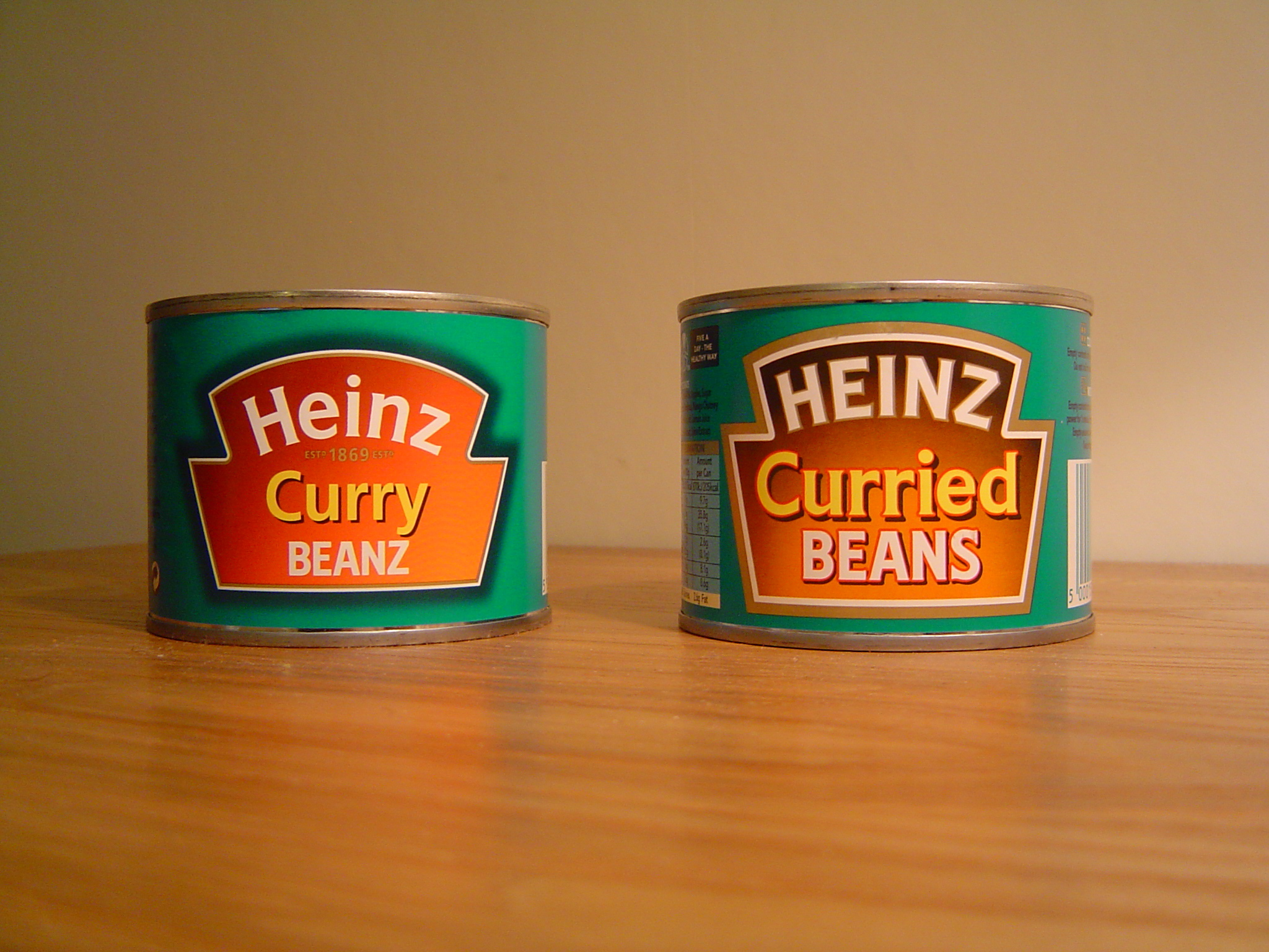 Curried Beans Curried Beans Image by Gordon Joly March 29th 2005 Sony Cybershot DSC-P72